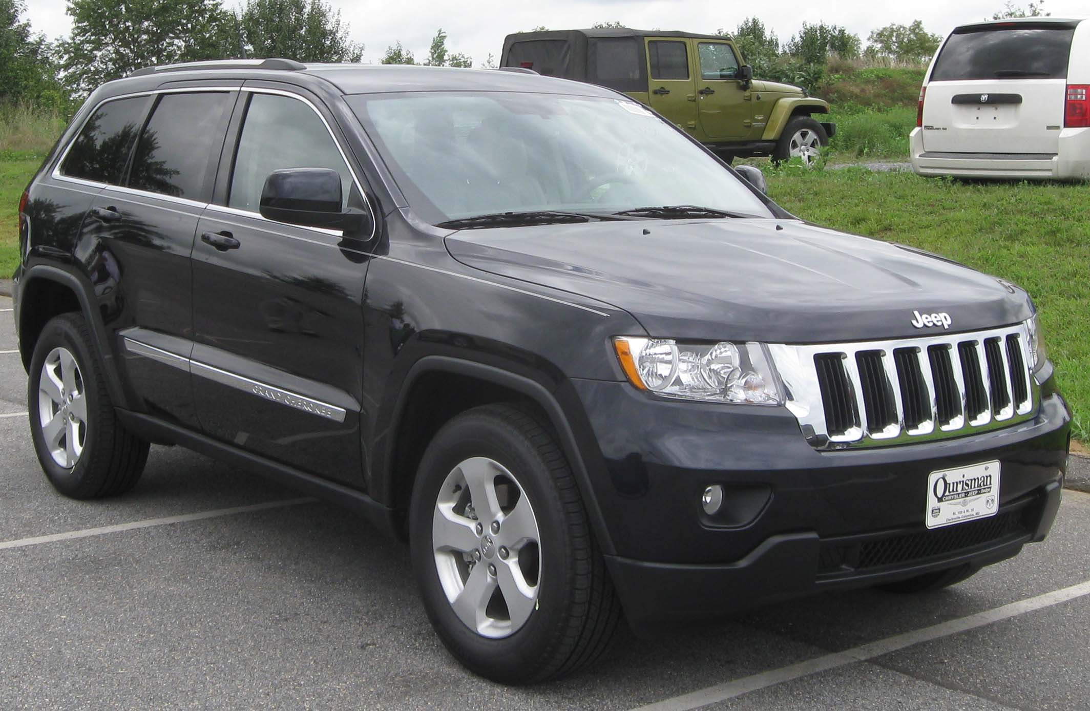 2011 Jeep Grand Cherokee Laredo photographed in Clarksville, Maryland, USA.